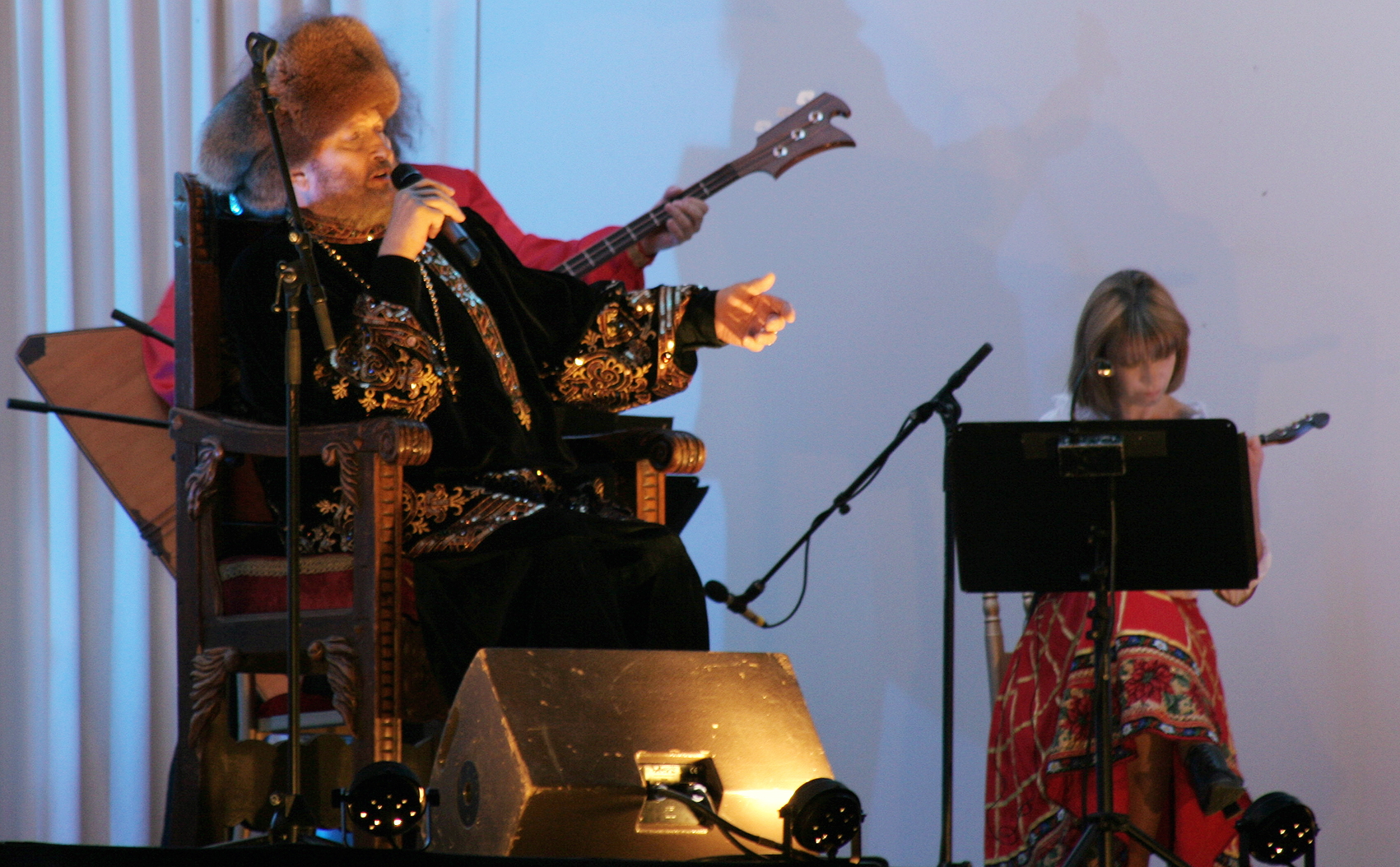 A walk concert in Abbaye de la Cambre, Brussels (Ixelles).